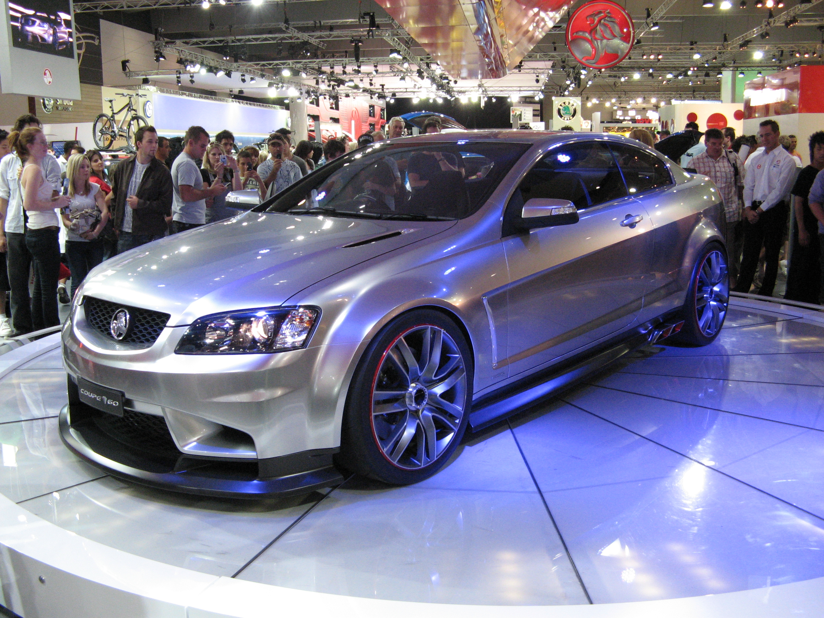 Is this the new Monaro?